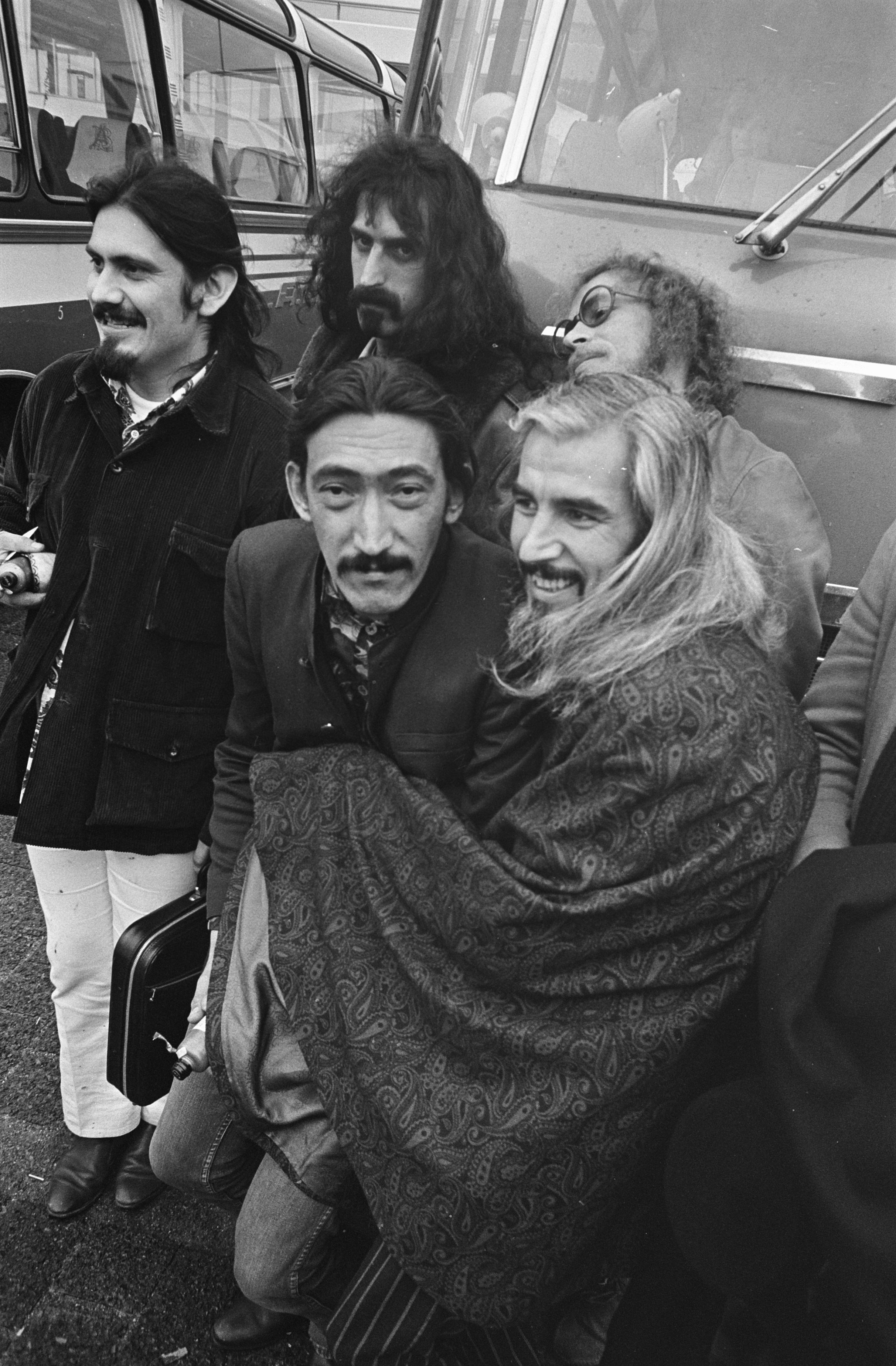 The Mothers of Invention at Schiphol Airport, October 1968. Back row: Roy Estrada, Frank Zappa, Don Preston. Front row: Jimmy Carl Black, Bunk Gardner.